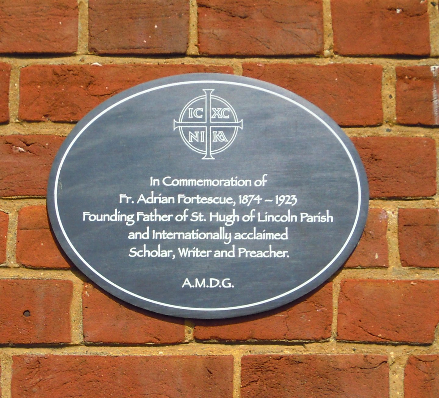 Commemorative plaque to Adrian Fortescue on the side of Fortescue Hall at the church of St Hugh of Lincoln in Letchworth Garden City